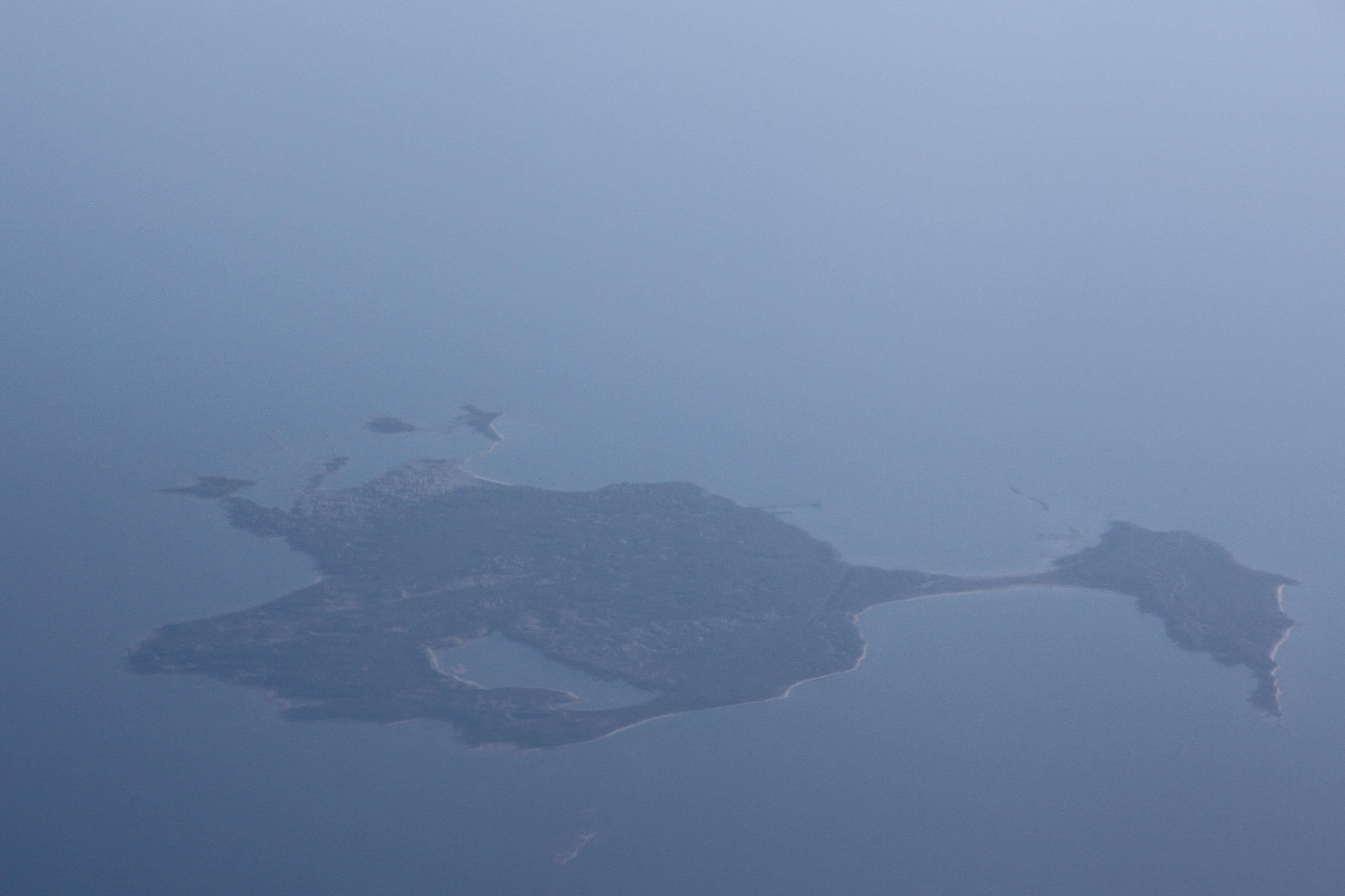 Lavansaari island photographed from the cabin of Finnair A340.